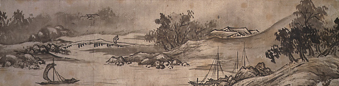 Landscape scroll by Sesshu, Yamaguchi Prefectural Art Museum, Japan